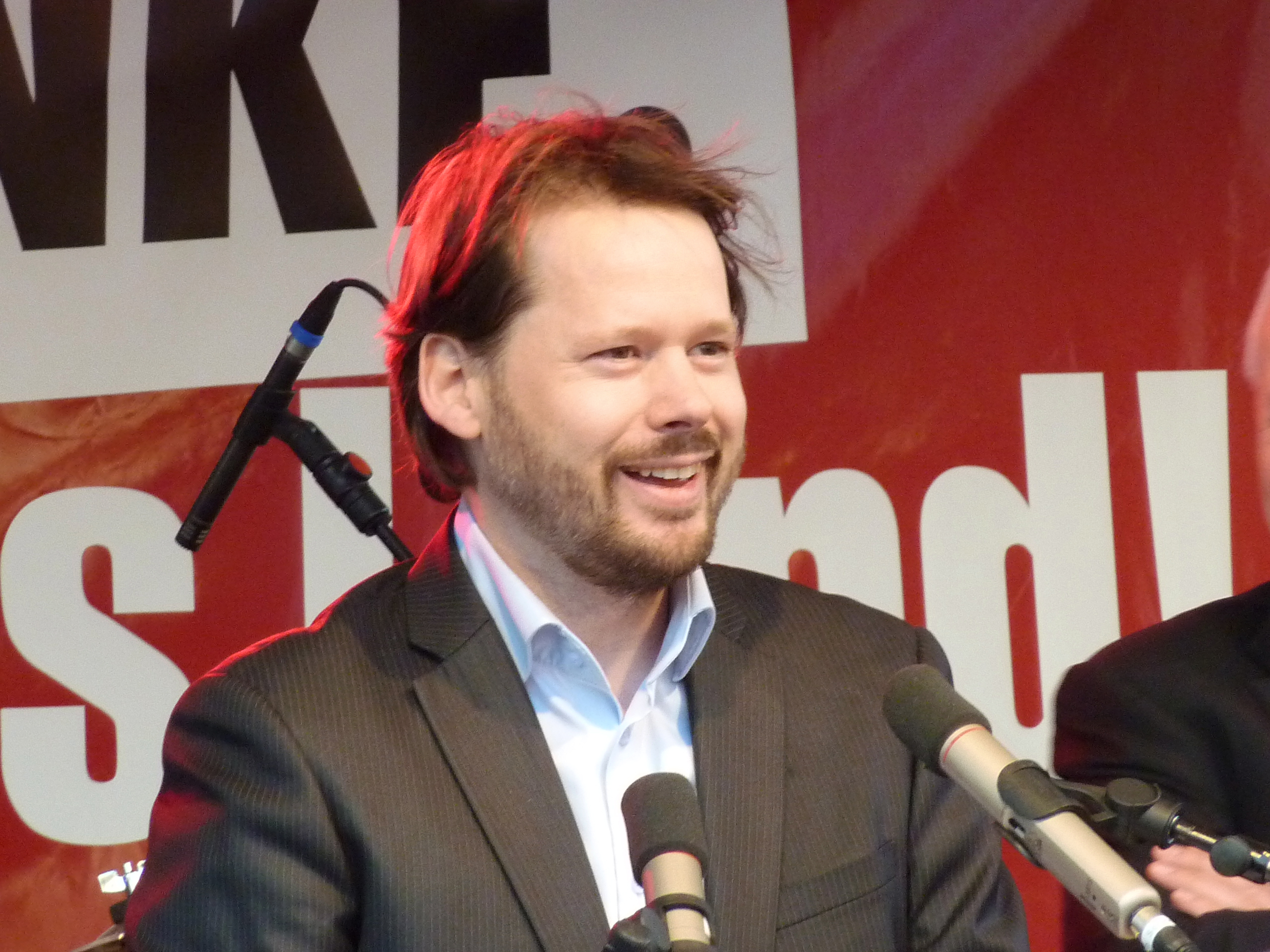 François Delapierre speaking at an election campaign rally organized by the party Die Linke at the Rathausplatz, Freiburg, Germany, on March 21, 2011.